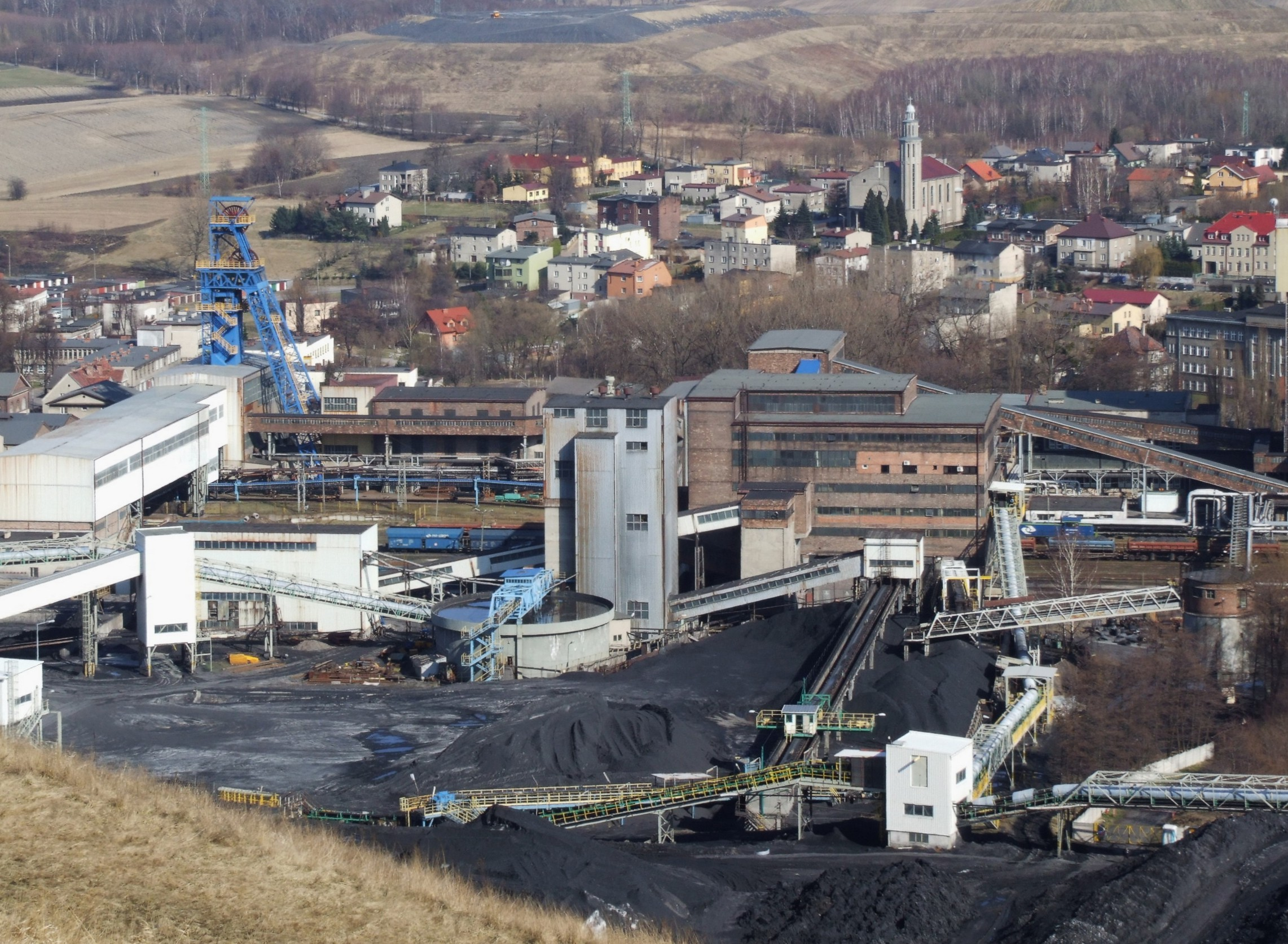 Coal Mine Bolesław Śmiały in Łaziska Górne (Upper Silesia)